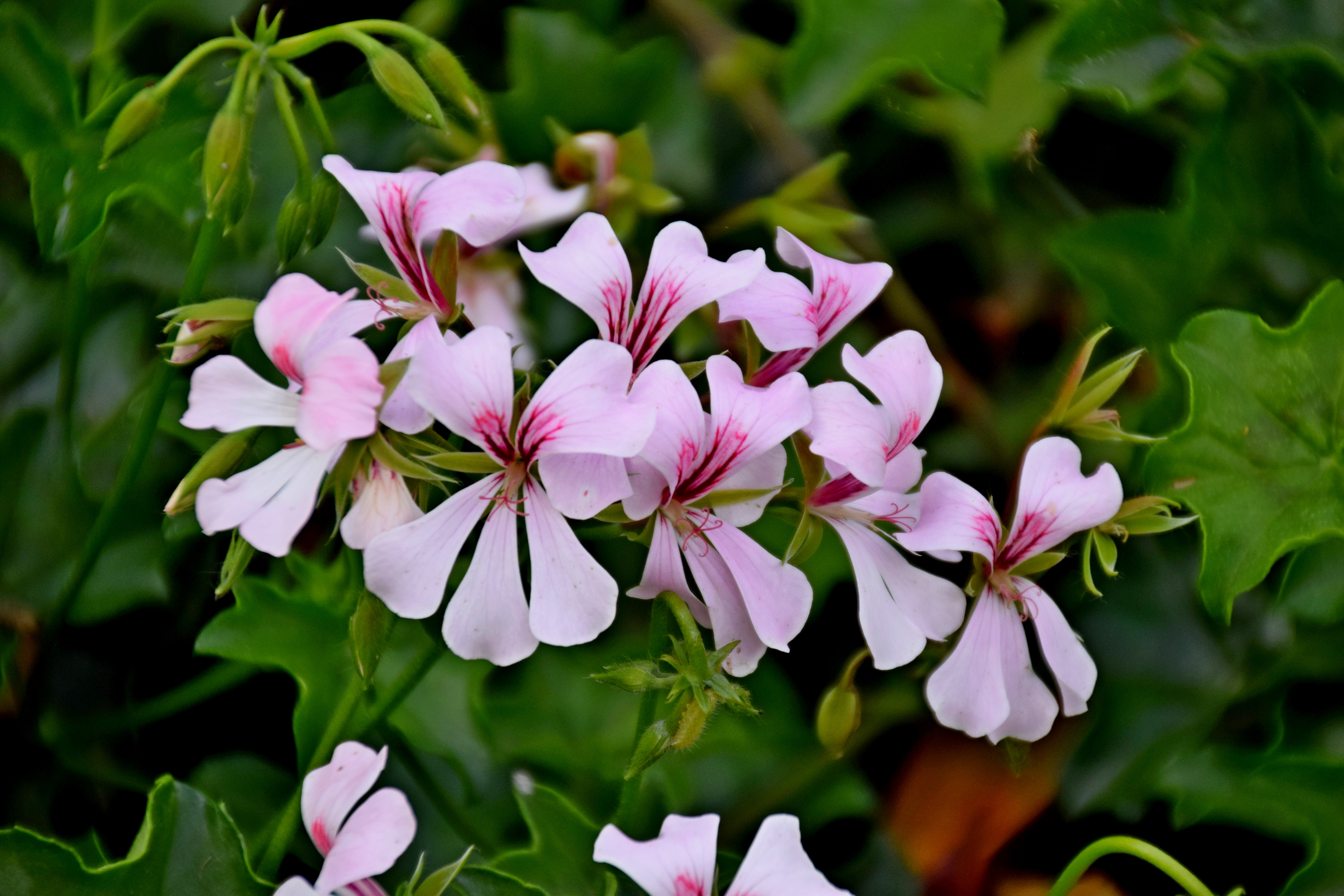 Pelargonium peltatum 'Ville de Dresde' in Jardin des Plantes de Toulouse